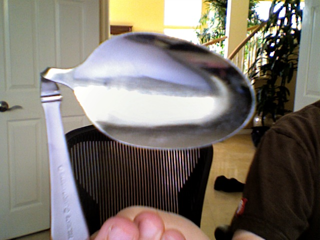 Created by iguana_nirvana14. I did this at a spoonbending party.